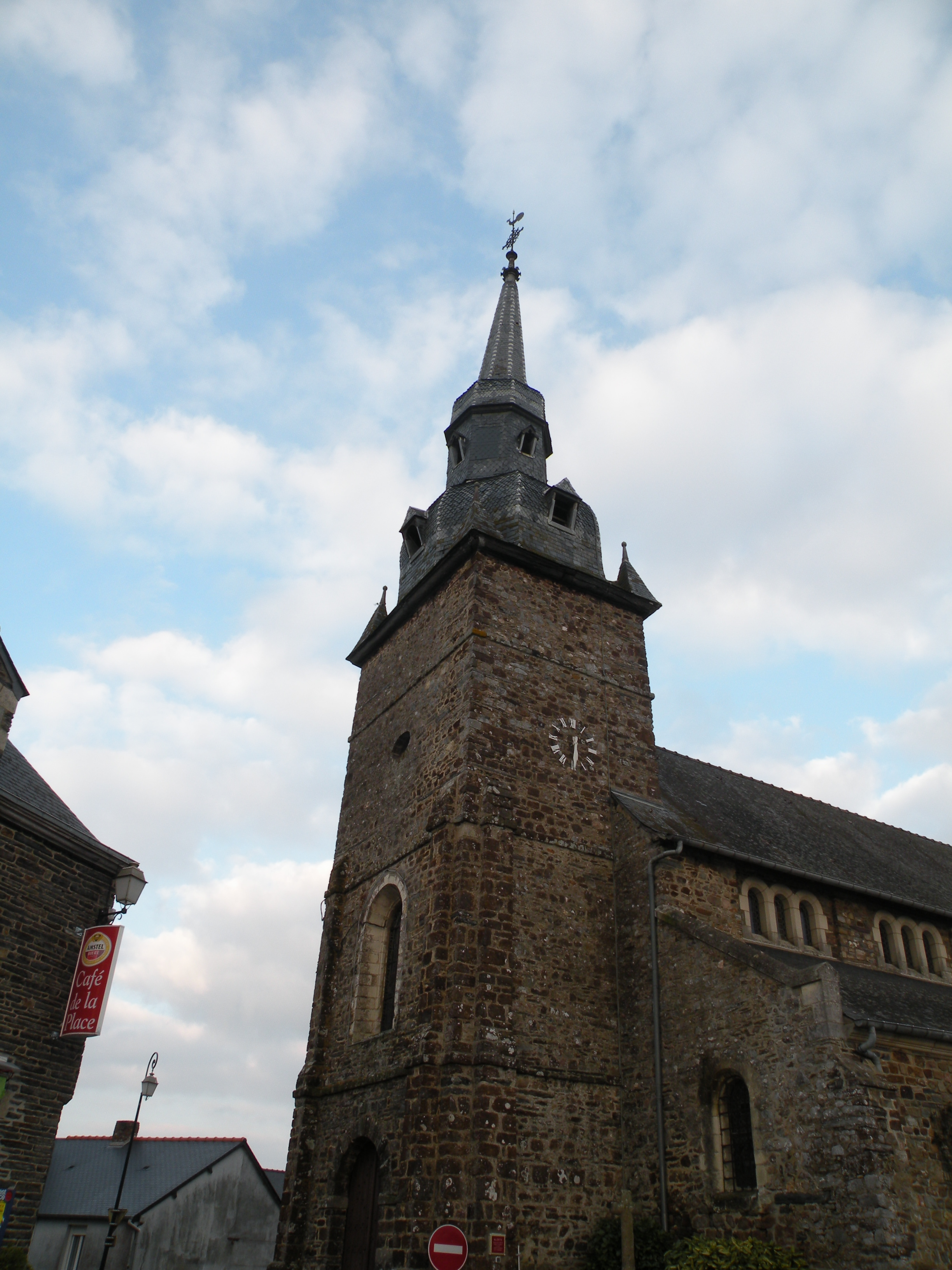 Church of Guipry